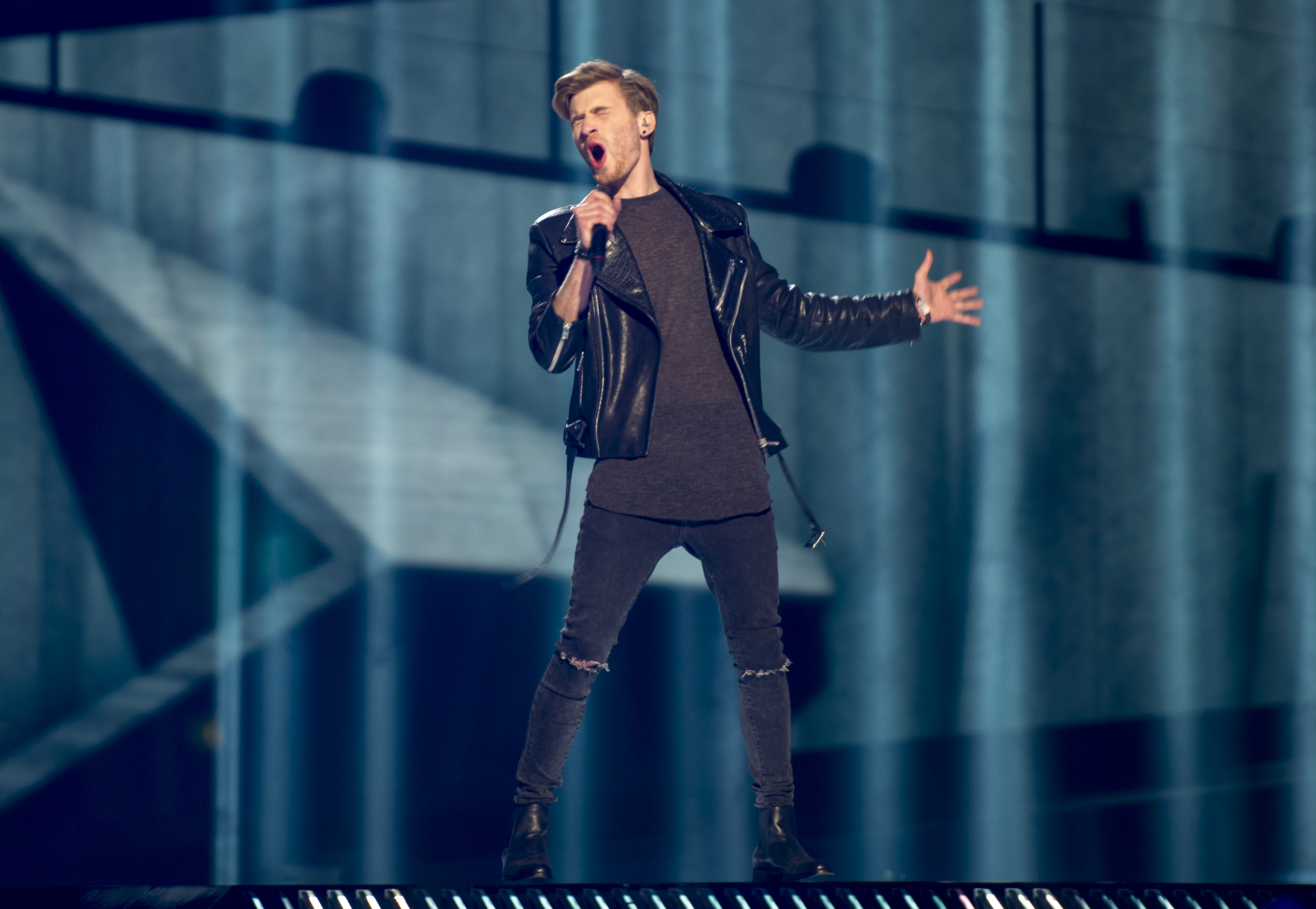 Justs representing Latvia with the song "Heartbeat" during a rehearsal before the second semi final of the Eurovision Song Contest 2016 in Stockholm. (Help translate this text)